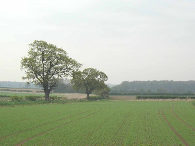 Open farmland in the Vale of York